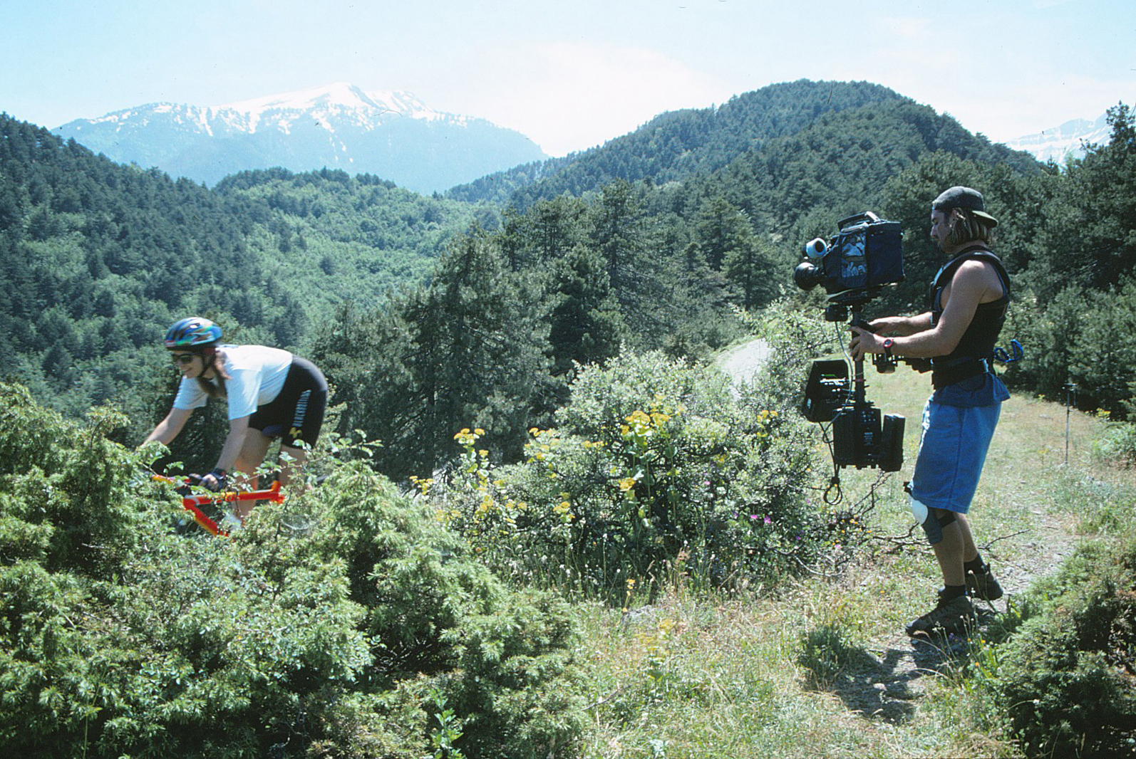 Steadicam Operator Dick Crow videotapes mountain bike rider Patty Mooney at Mt. Olympus, Greece. Photograph by Mark Schulze, New & Unique Videos, San Diego, California.